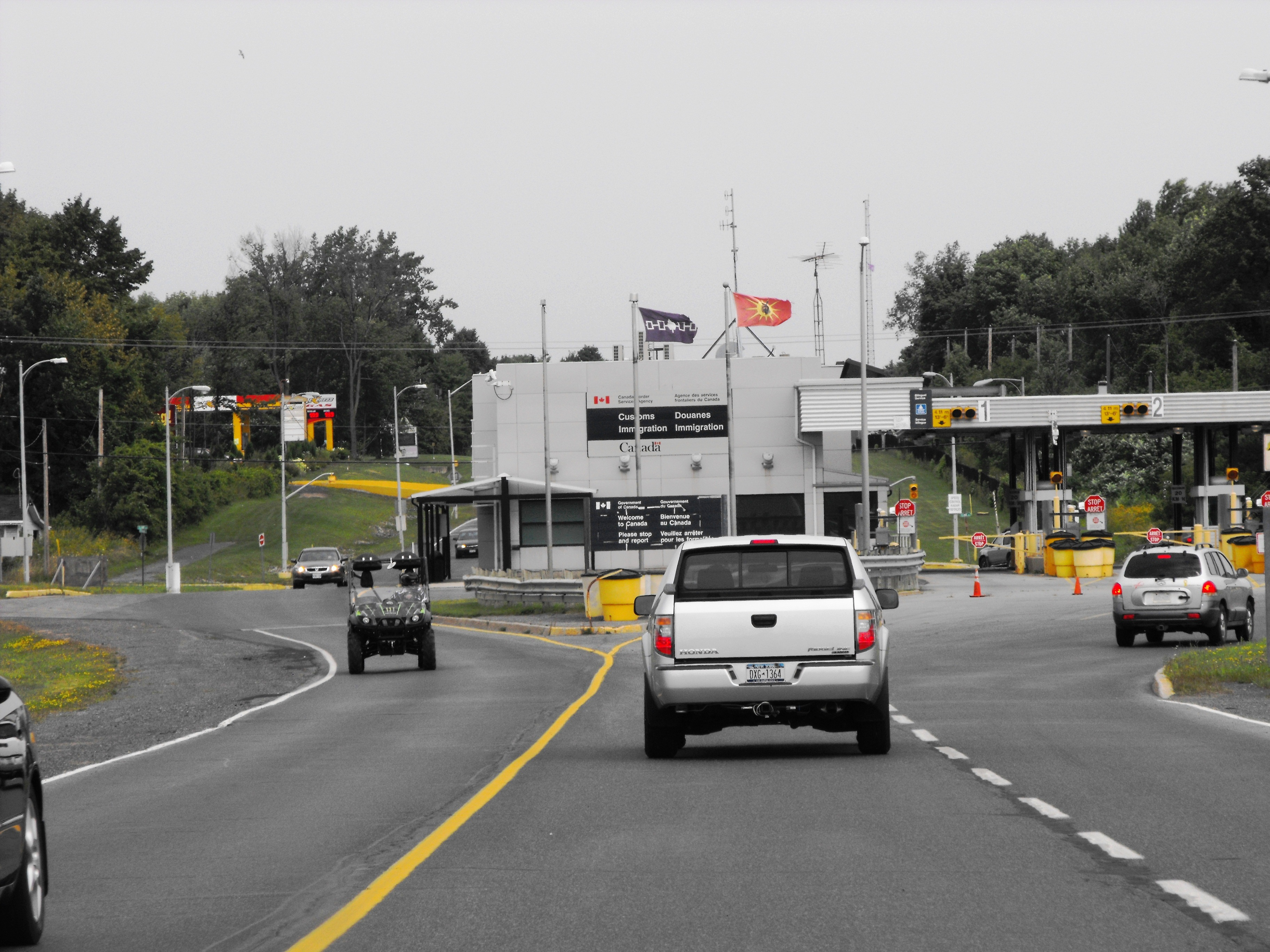 The Canadian Customs facility at Akwesasne (near Cornwall, Ontario) after it had been vacated by CBSA due to a dispute with local Akwesasne native Americans.